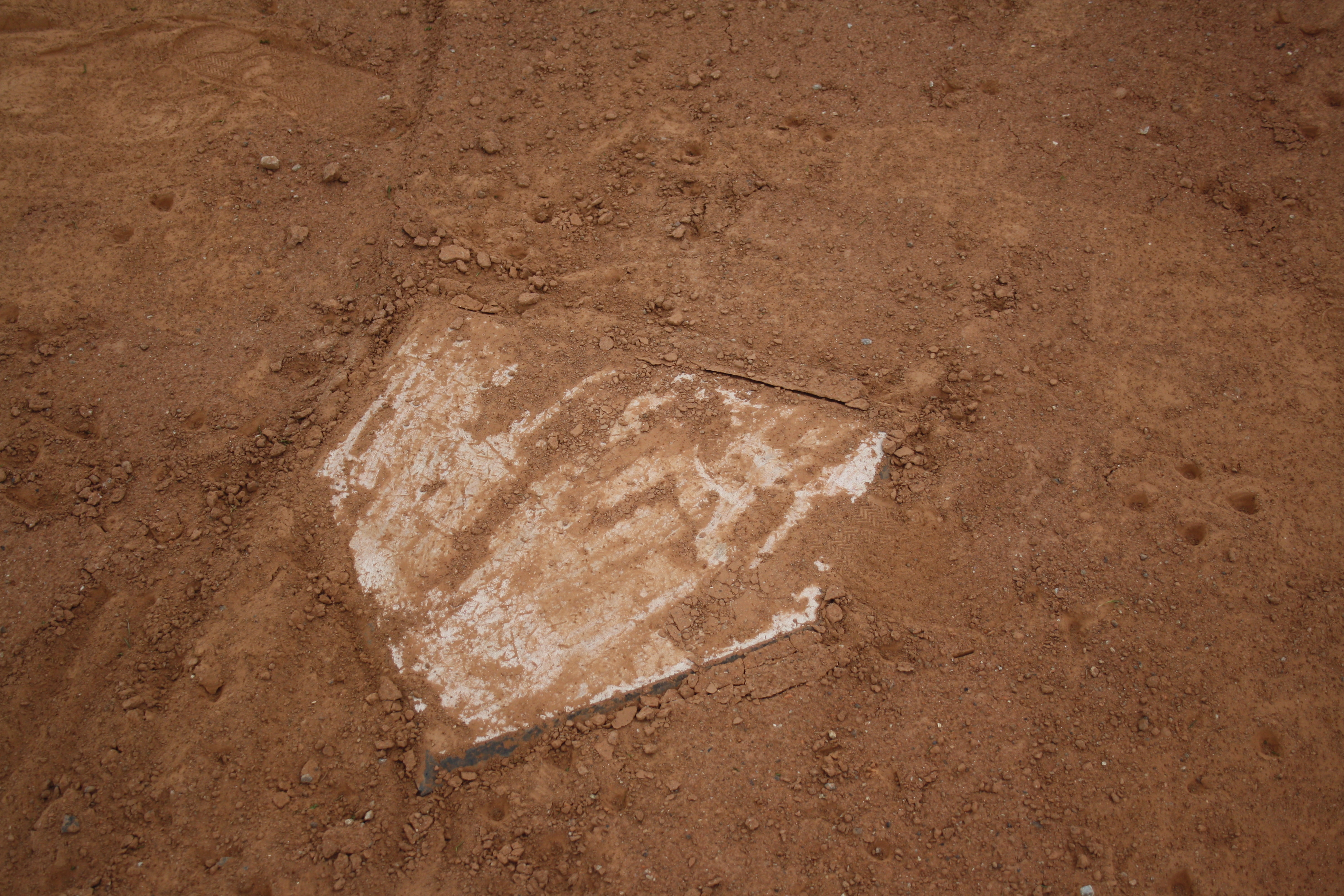 Home base of baseball field in Třebíč, Czech Republic.